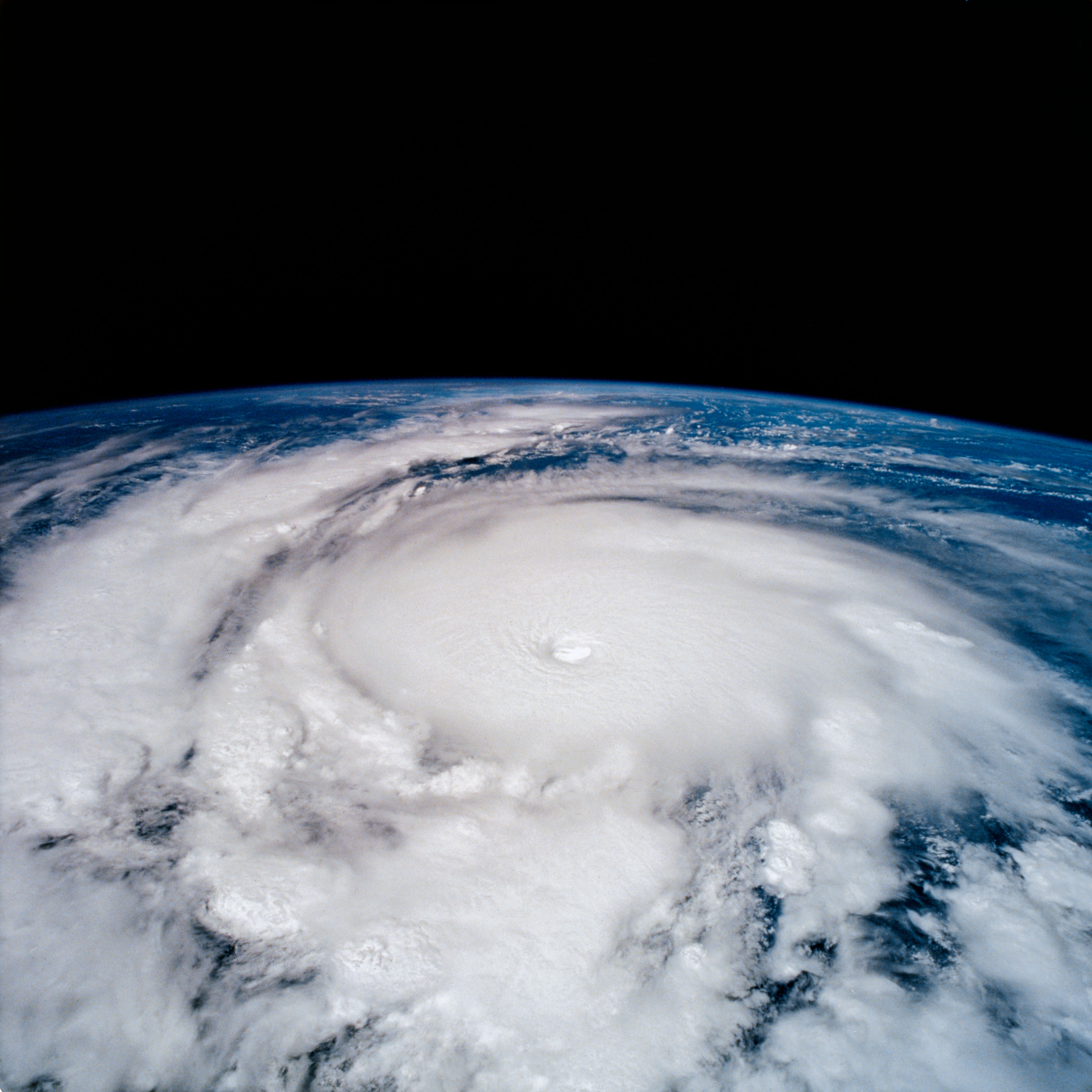 Oblique view of 1994's Hurricane Emilia from the Space Shuttle Columbia.